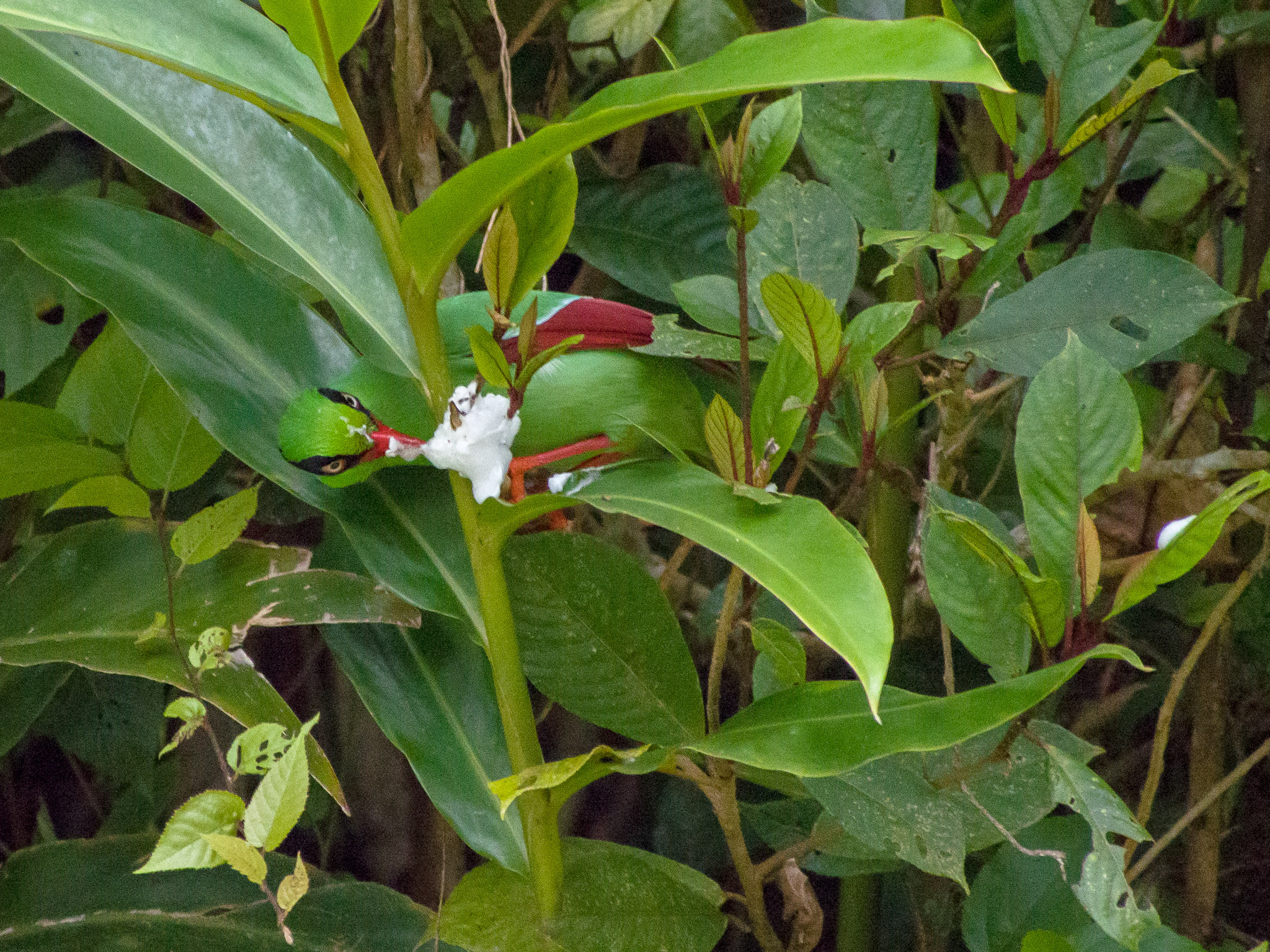 Bornean Green Magpie (Cissa jefferyi) in Sabah, Borneo, formerly a subspecies of the Short-tailed Green Magpie